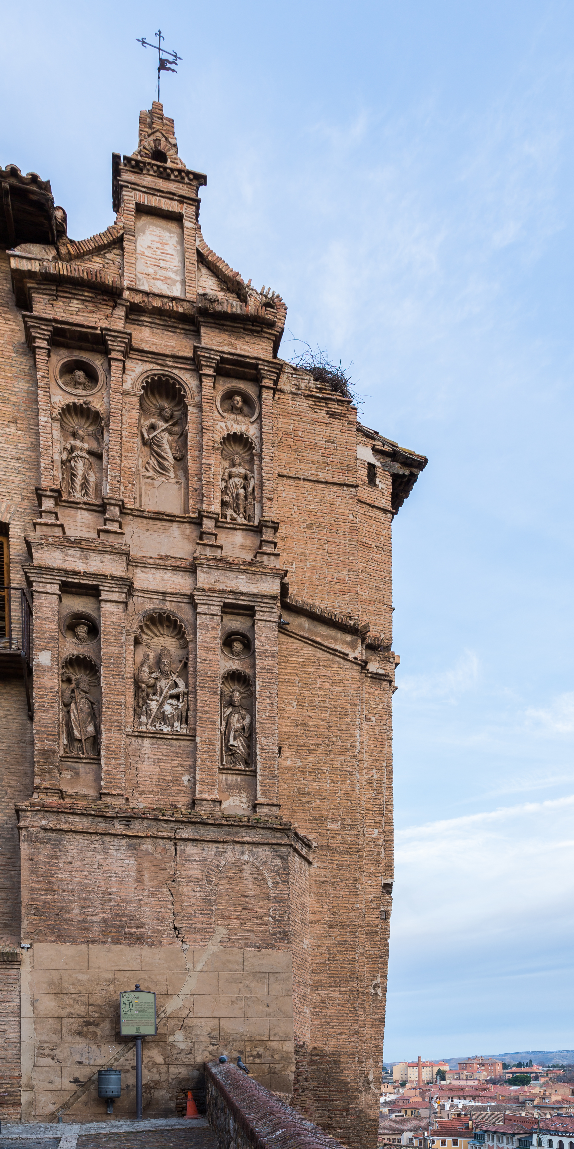 Episcopal palace, Tarazona, Spain